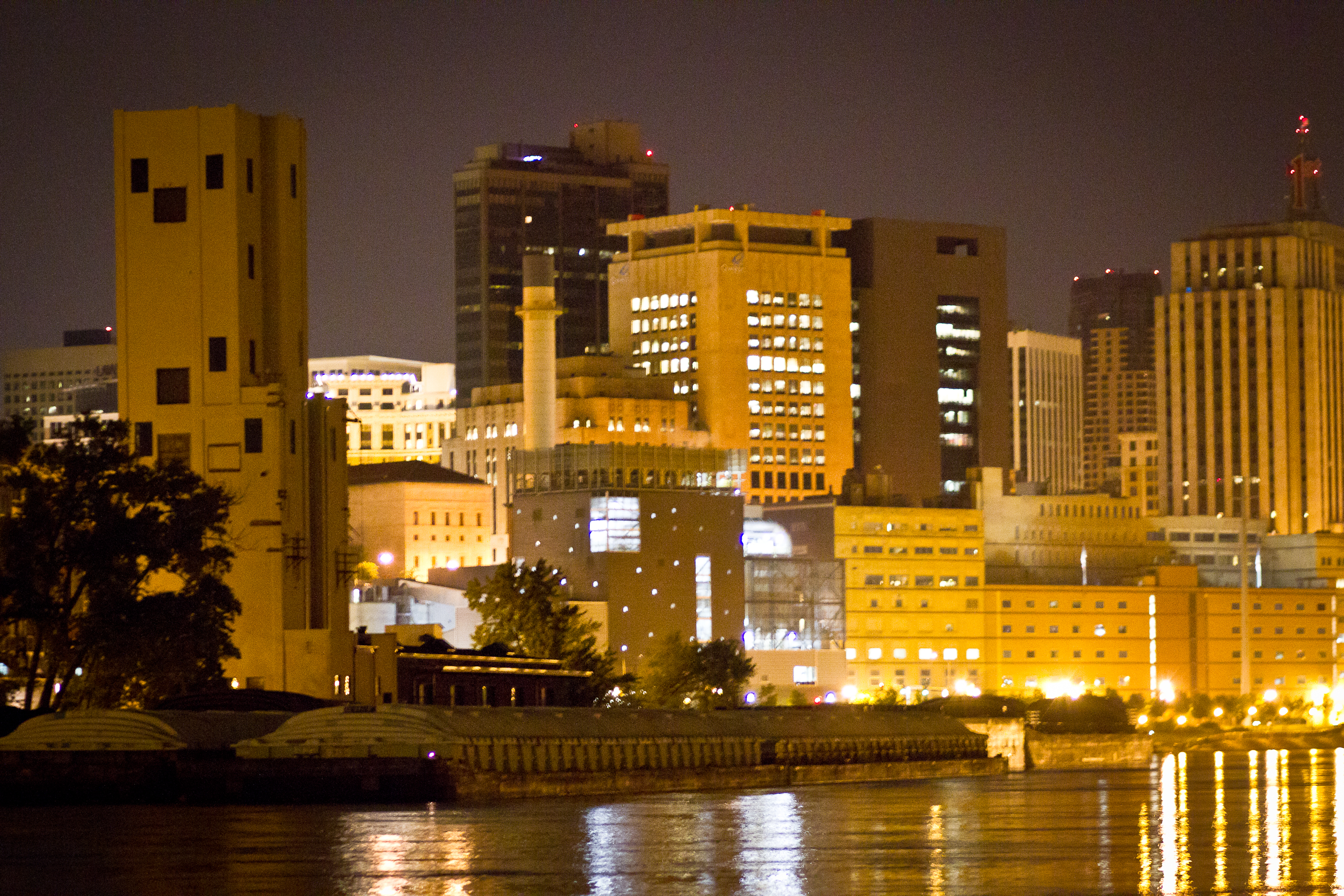 From aboard the Jonathan Padelford river boat on the Mississippi River during Mississippi Megalops, a Northern Spark project.